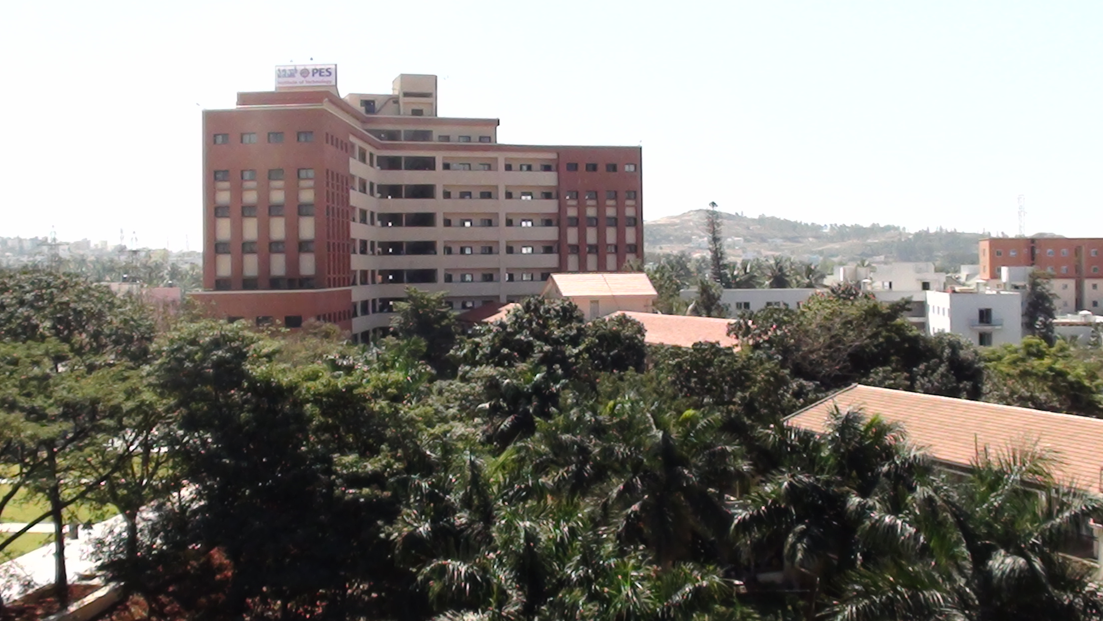 photo of PESIT, Bangalore